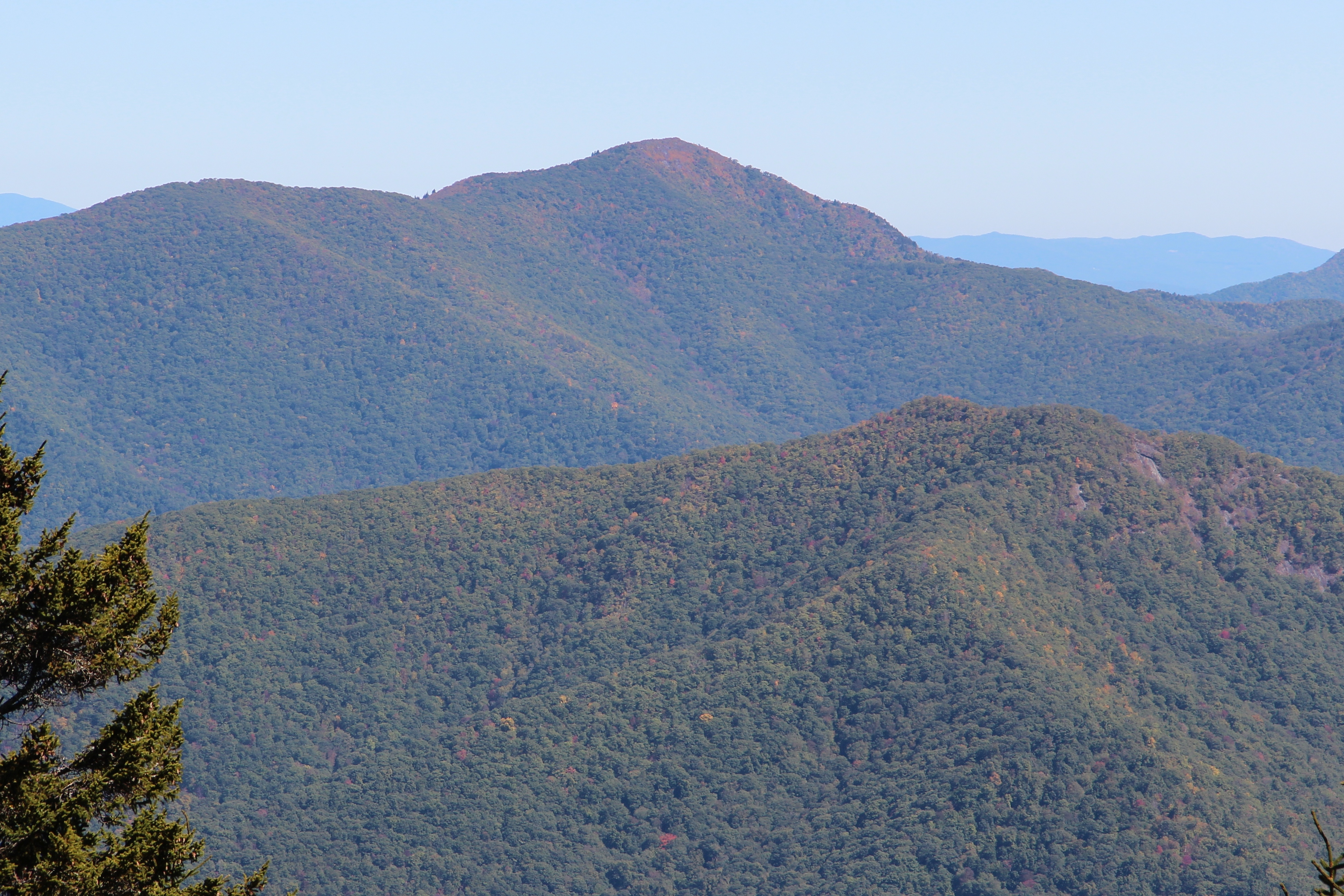 Cold Mountain viewed from Haywood-Jackson Overlook